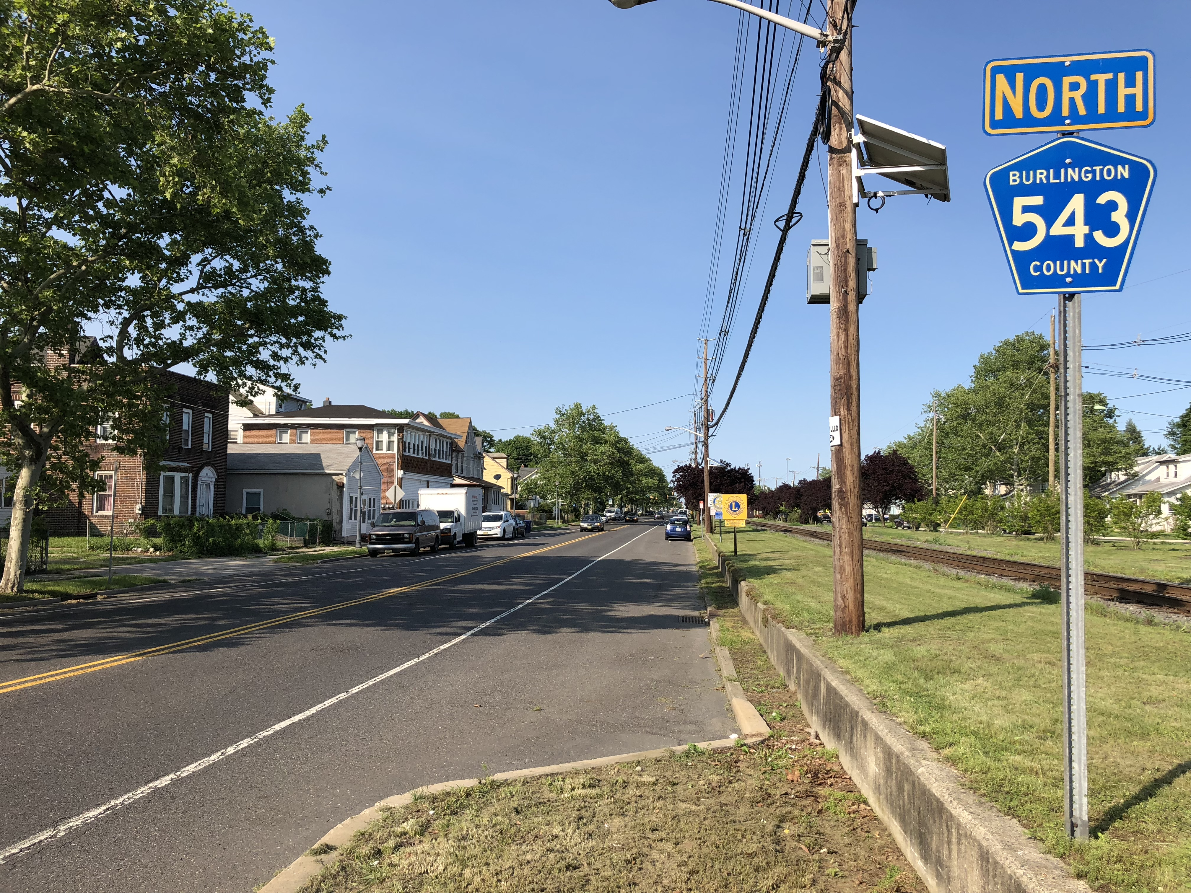 View north along Burlington County Route 543 (Broad Street) at Market Street in Palmyra, Burlington County, New Jersey